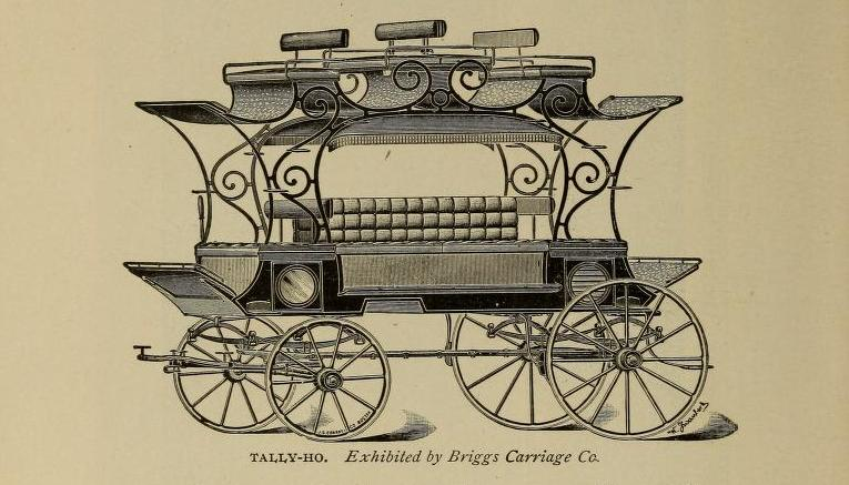 Tally-Ho by Briggs Carriage Co Amesbury Massachusetts